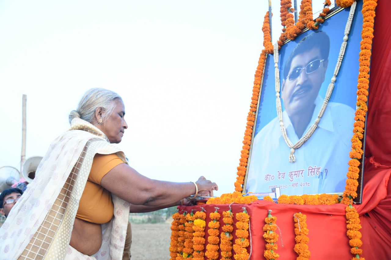 His wife paying last respects